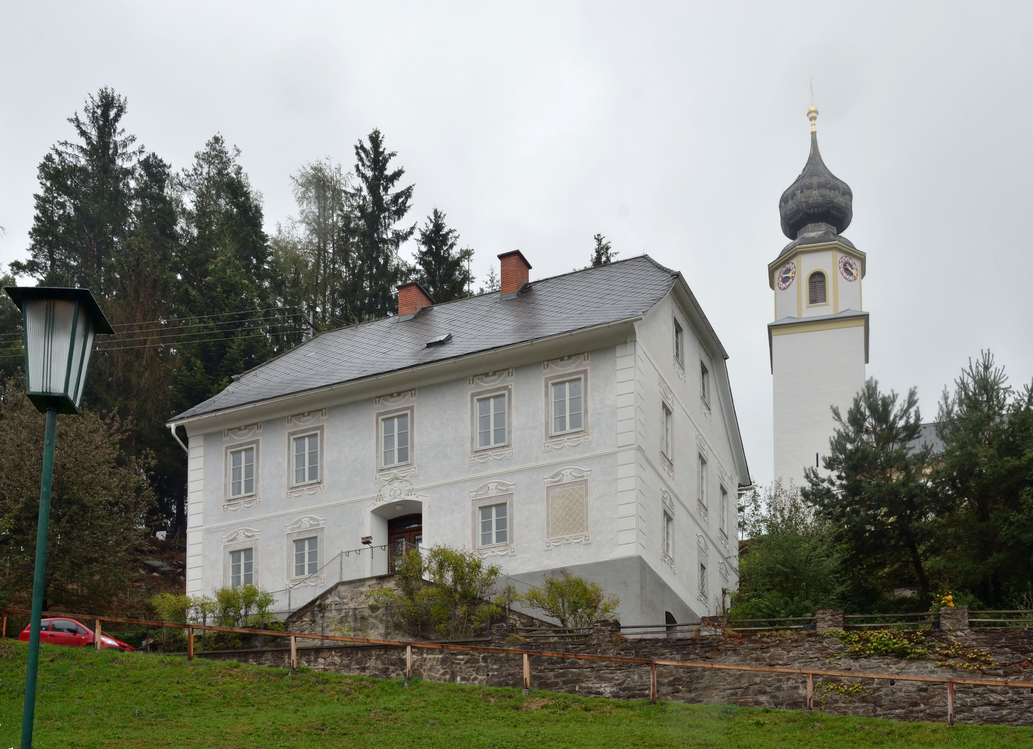 Rectory in St. Kathrein am Hauenstein, Styria. Behind of the rectory there is the tower of the parish church.